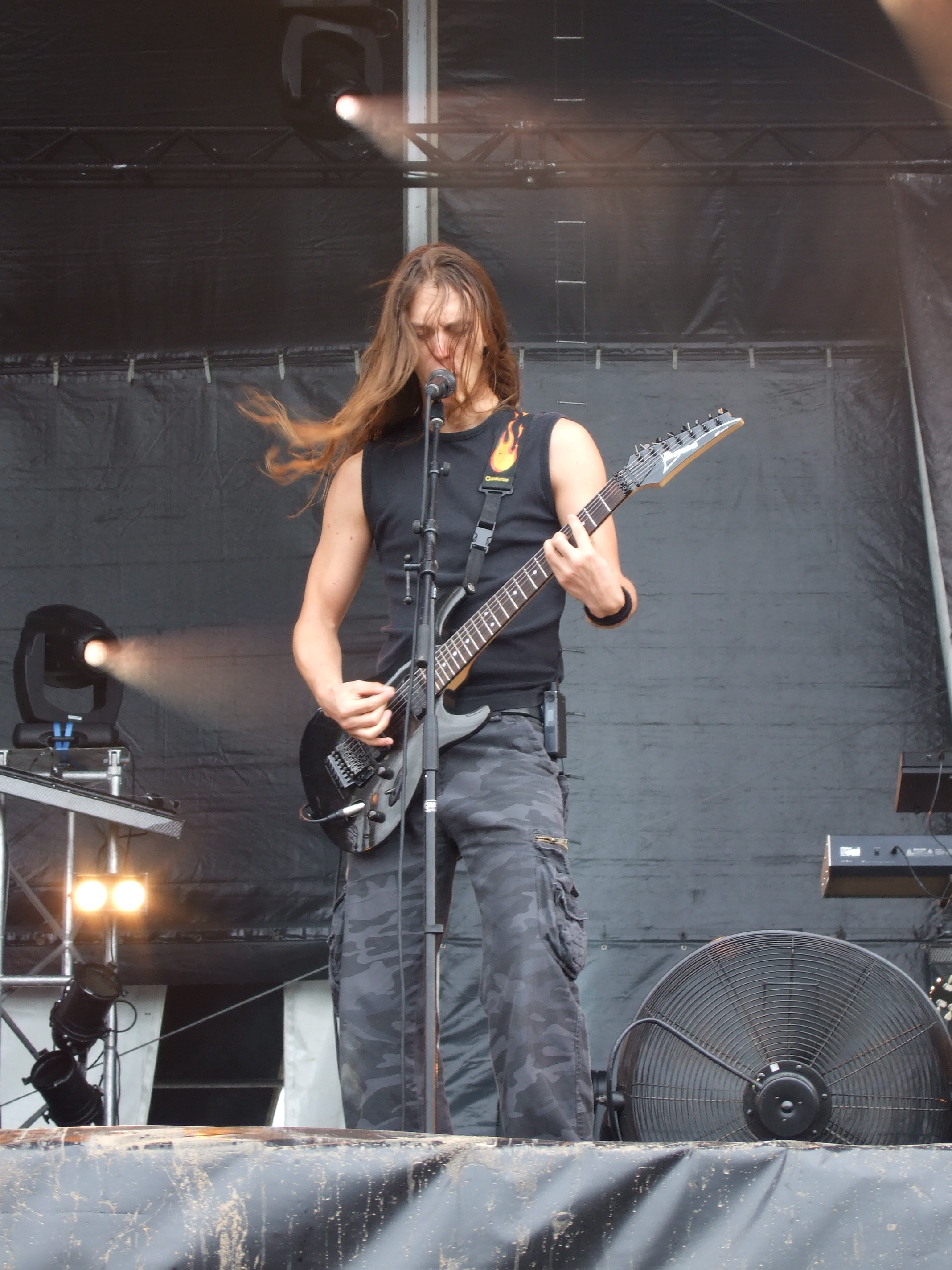 Epica at Hellfest Summer Open Air 2007.